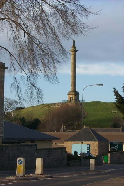 The Duke of Gordon Monument, Elgin